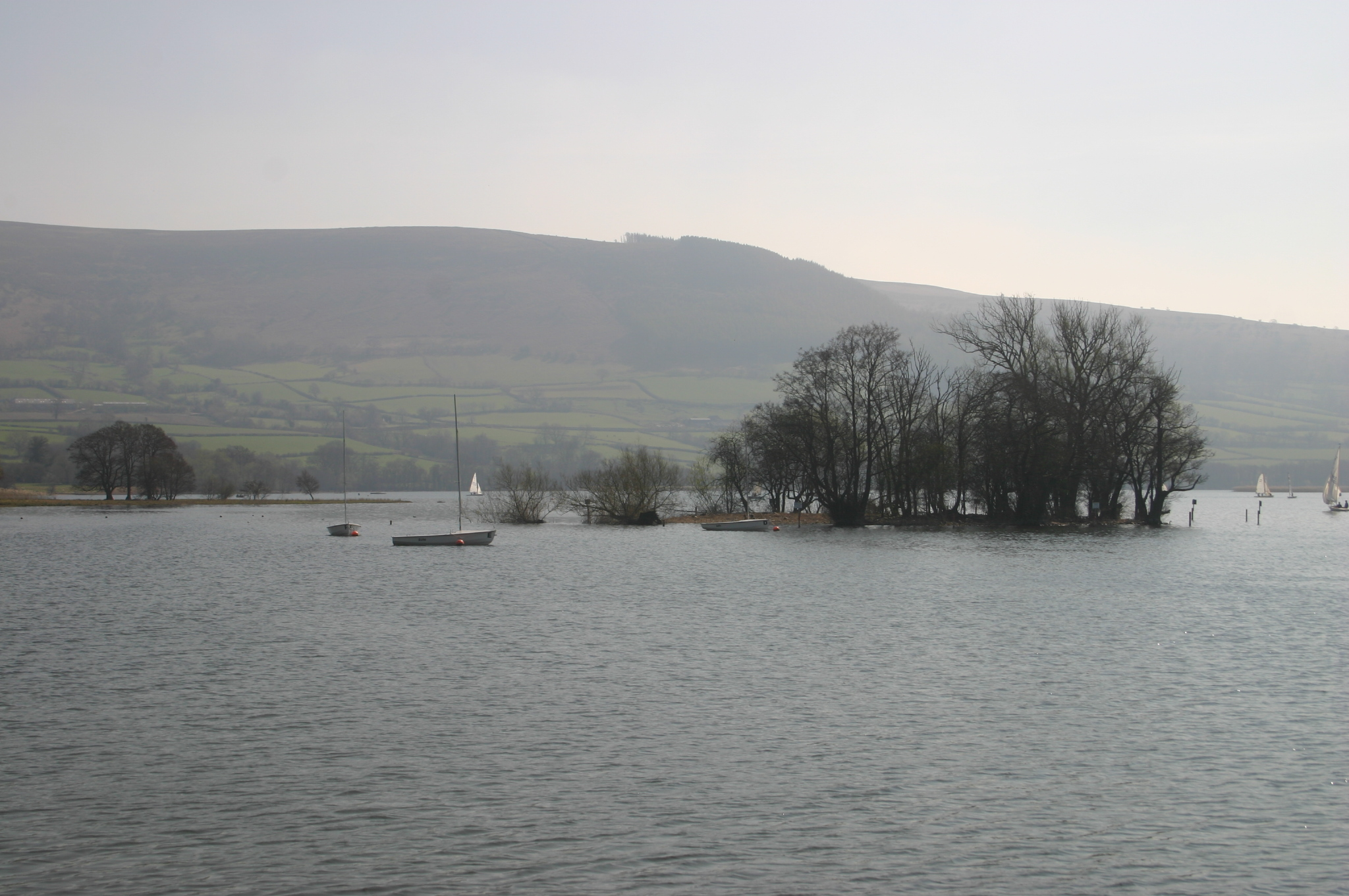 Crannog Llangorse Lake From the replica Crannog looking out to the Crannog on Llangorse Lake.